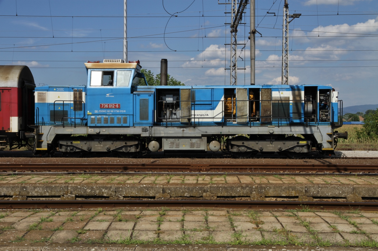 ZSSK diesel locomotive number 736.012-6 at Kalná nad Hronom, Slovakia